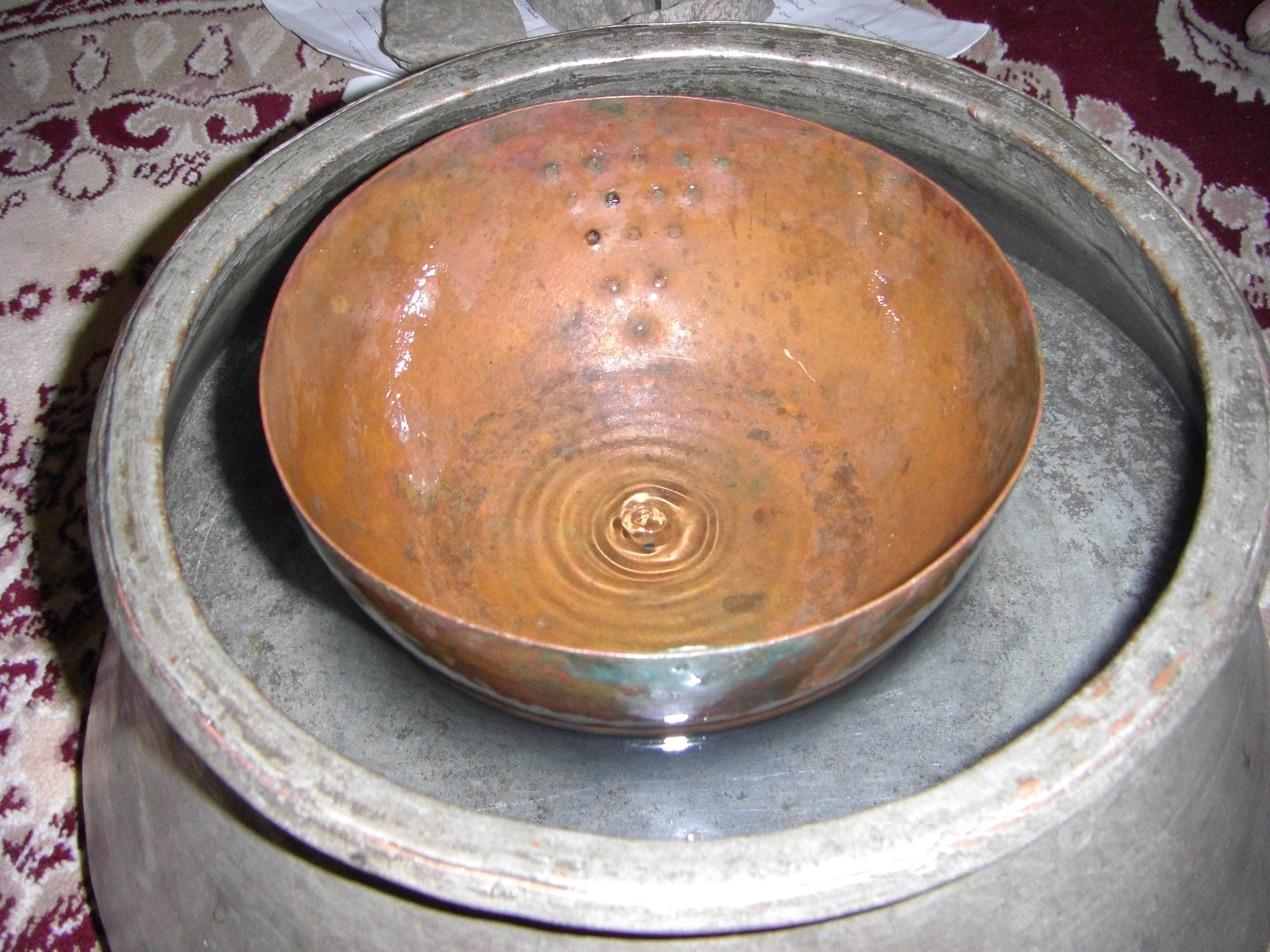 this water clock was used to time the sharing of water of qanats or kareez